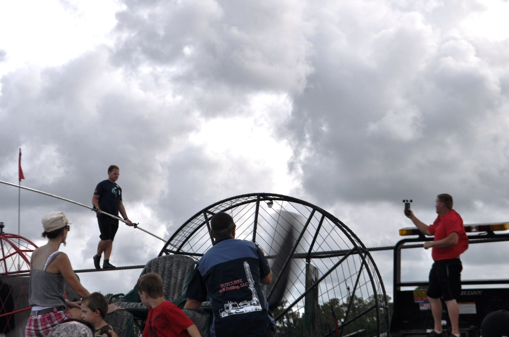 Nik Wallenda Trains for June 23, 2013 Grand Canyon Walk at Nathan Benderson Park, Sarasota, Fla., June 14, 2013